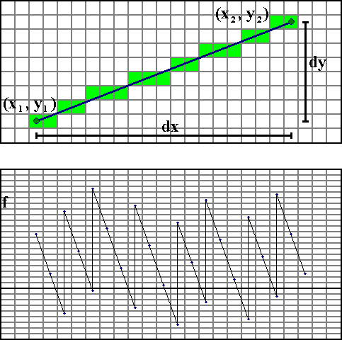 Bresenham algorithm: rendered line, compared to the progression of the error variable